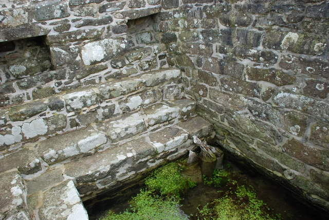 Ffynnon Beuno Clynnog Fawr One of the many holy wells associated with local saints.